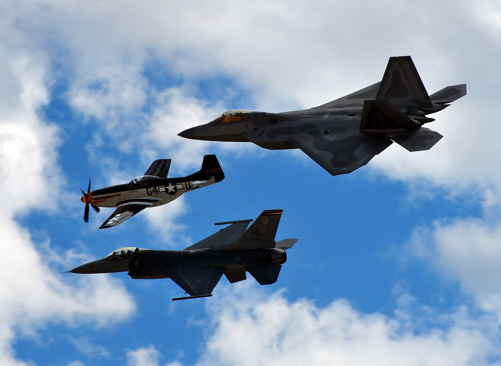 P-51, F-16, and F-22 flying over in formation. Photo taken during MCAS Miramar Air Show 2010